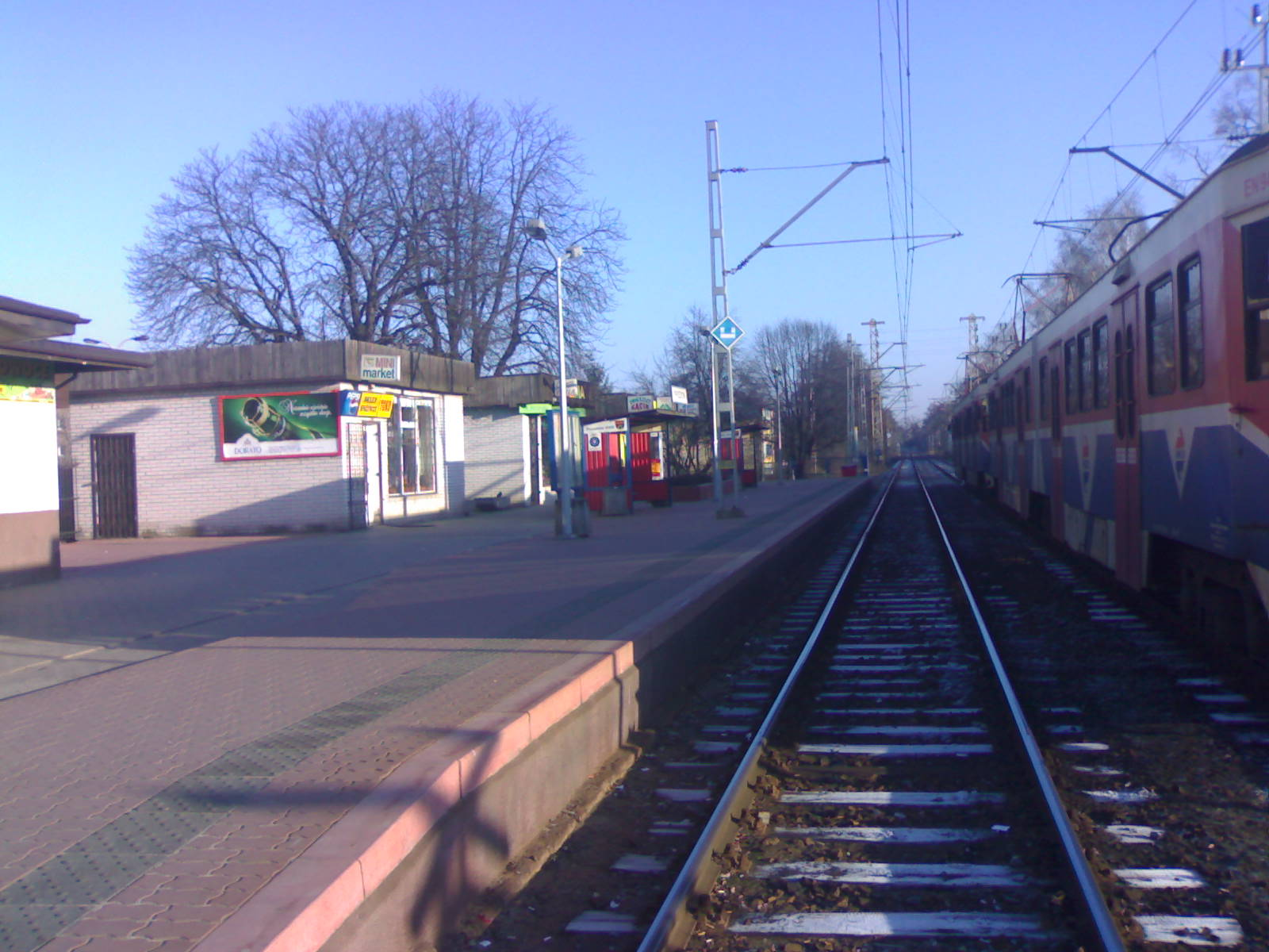 Warszawa Pruszków WKD commuter train station.